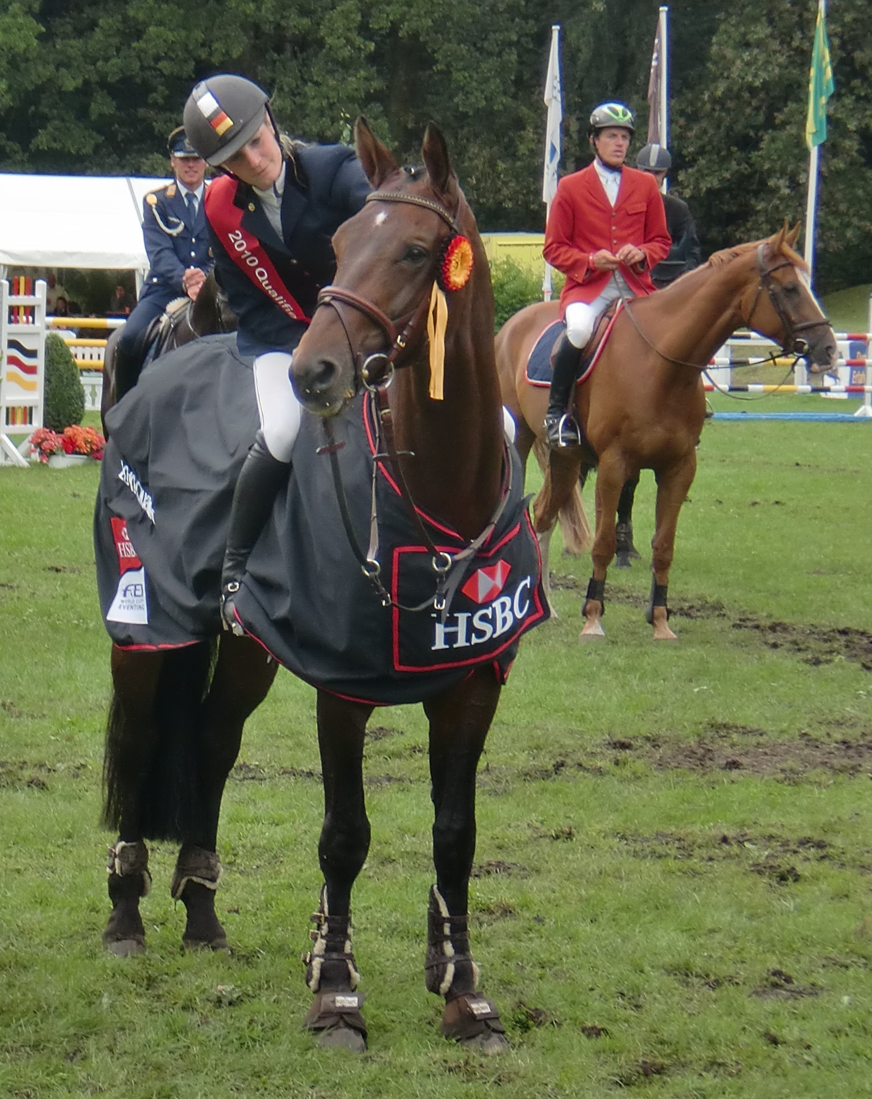 Julia Mestern and FRH Schorsch, presentation ceremony of the HSBC FEI World Cup / German Eventing Championships 2010, CIC 3*-W Schenefeld 2010